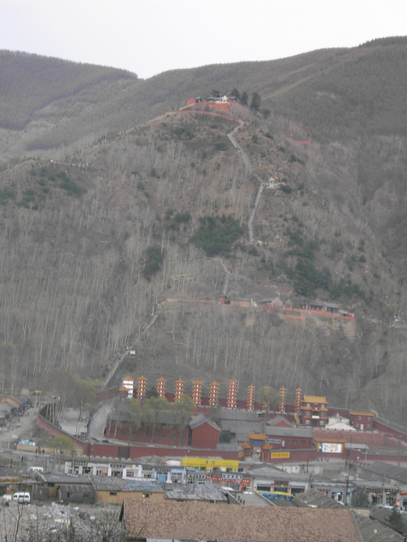 the temple of wutaishan mountain